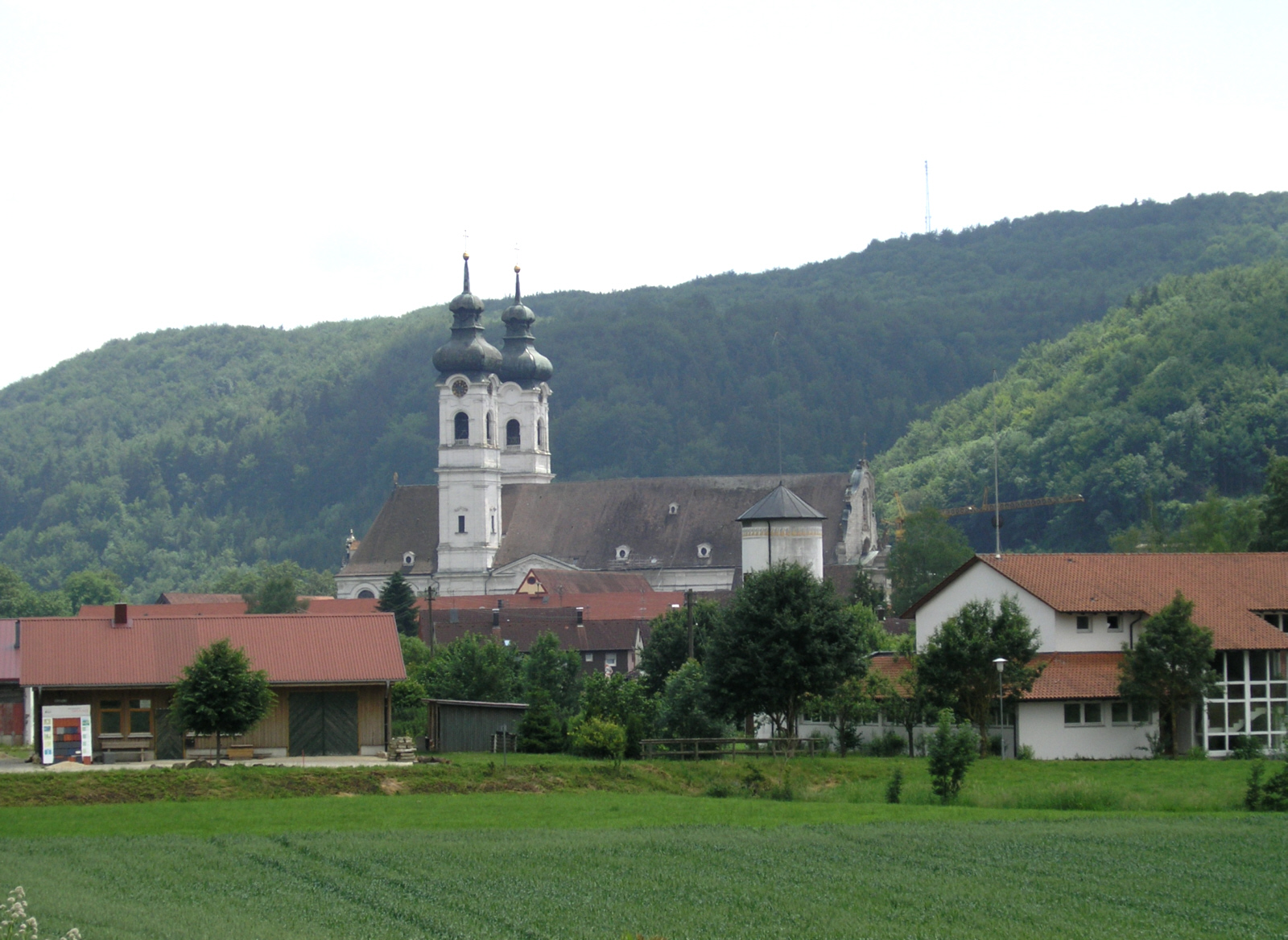 Monastery church of Zwiefalten/Germany